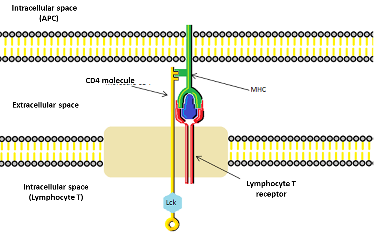 Image of CD4 correceptor binding to MHC (Mayor Histocompatibility Complex) non-polymorphic region.